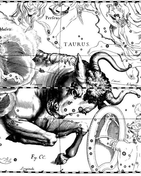 The Taurus constellation from Uranographia by Johannes Hevelius. The view is mirrored following the tradition of celestial globes, showing the celestial sphere in a view from "ouside"